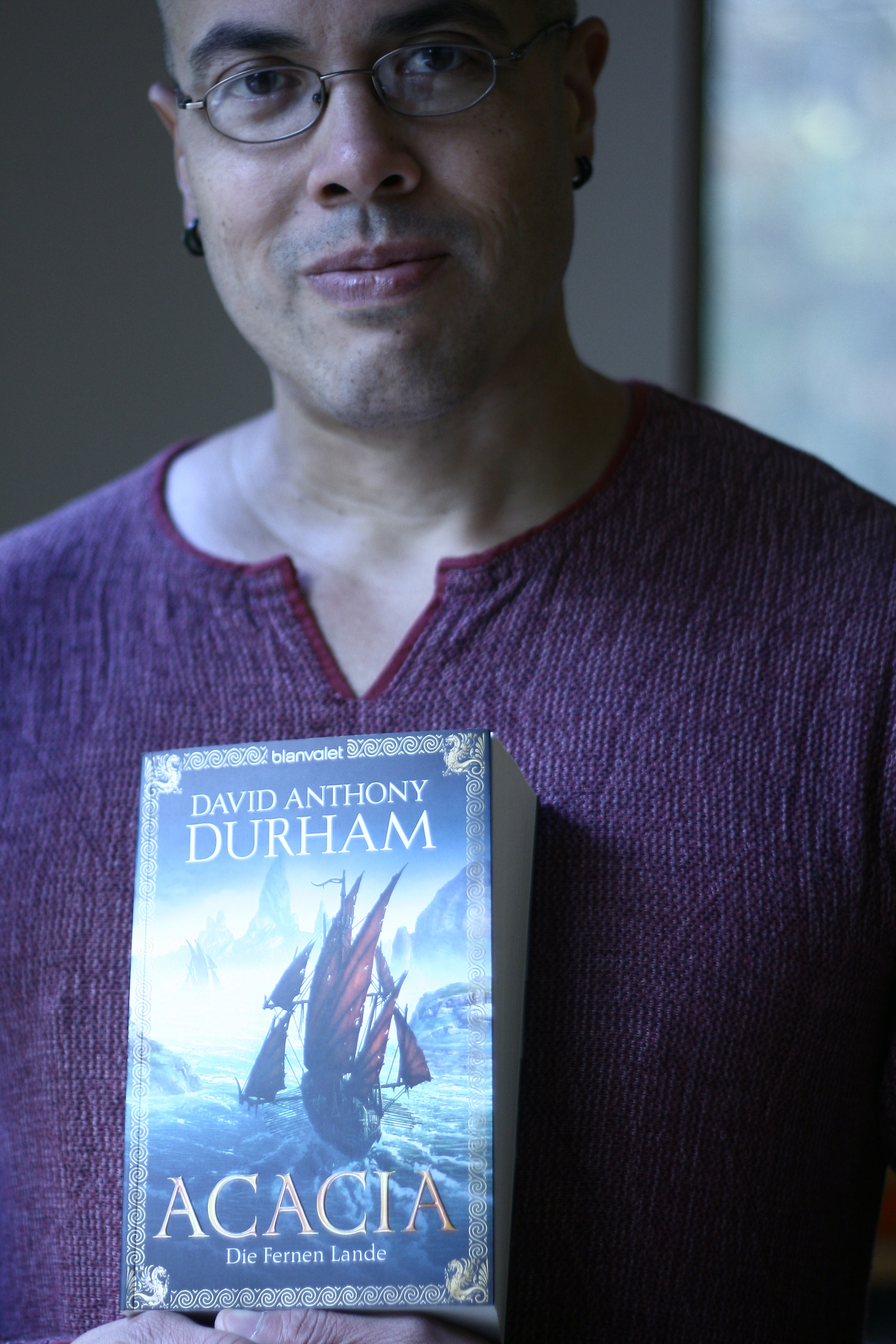 Photo of author David Anthony Durham